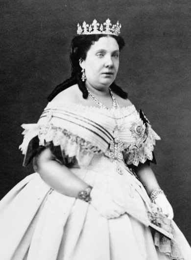 Photo of Queen Isabella II of Spain